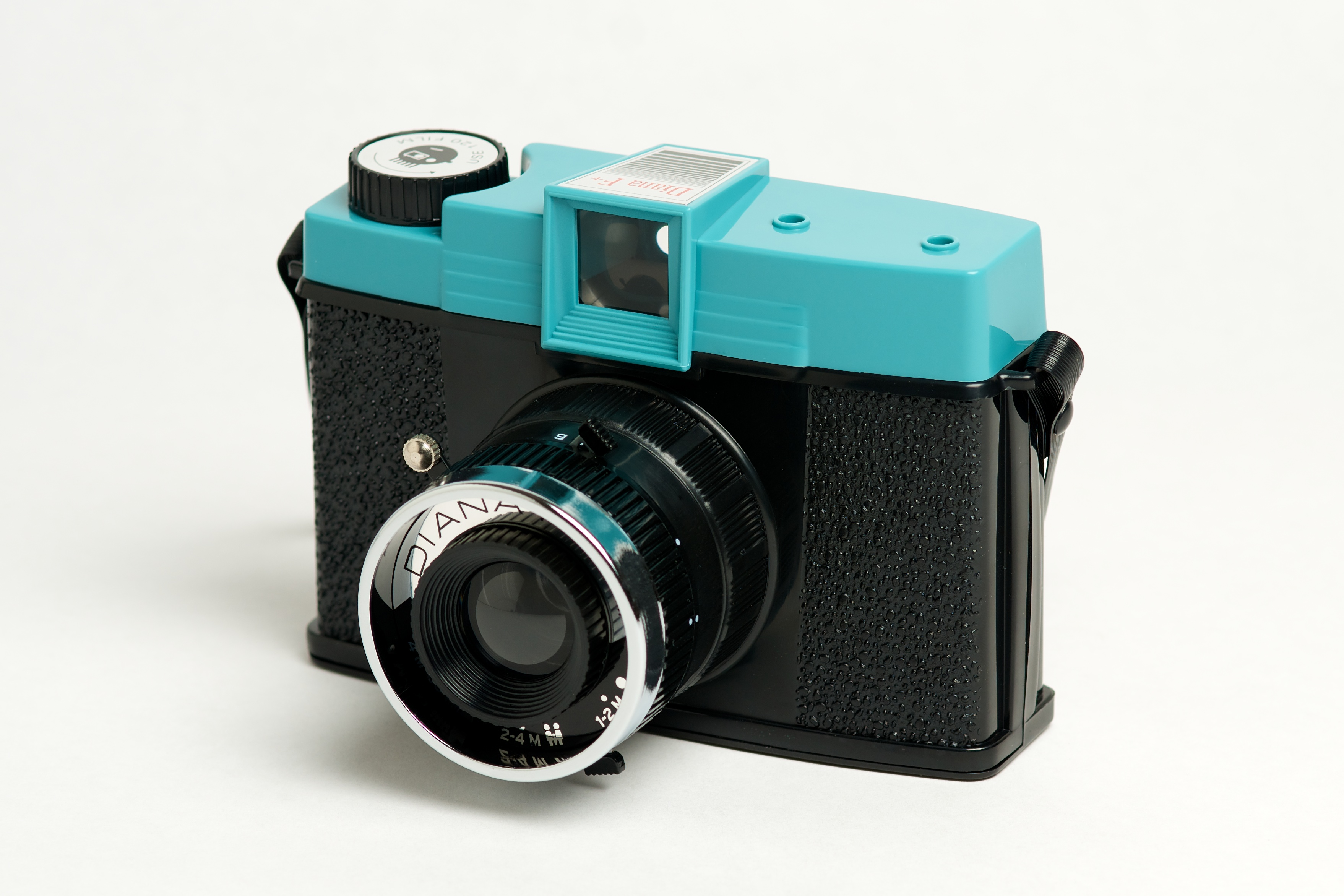 Diana F+ Camera from Lomography